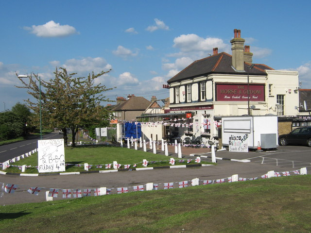 The Horse and Groom Public House, Wilmington On Leyton Cross Road.